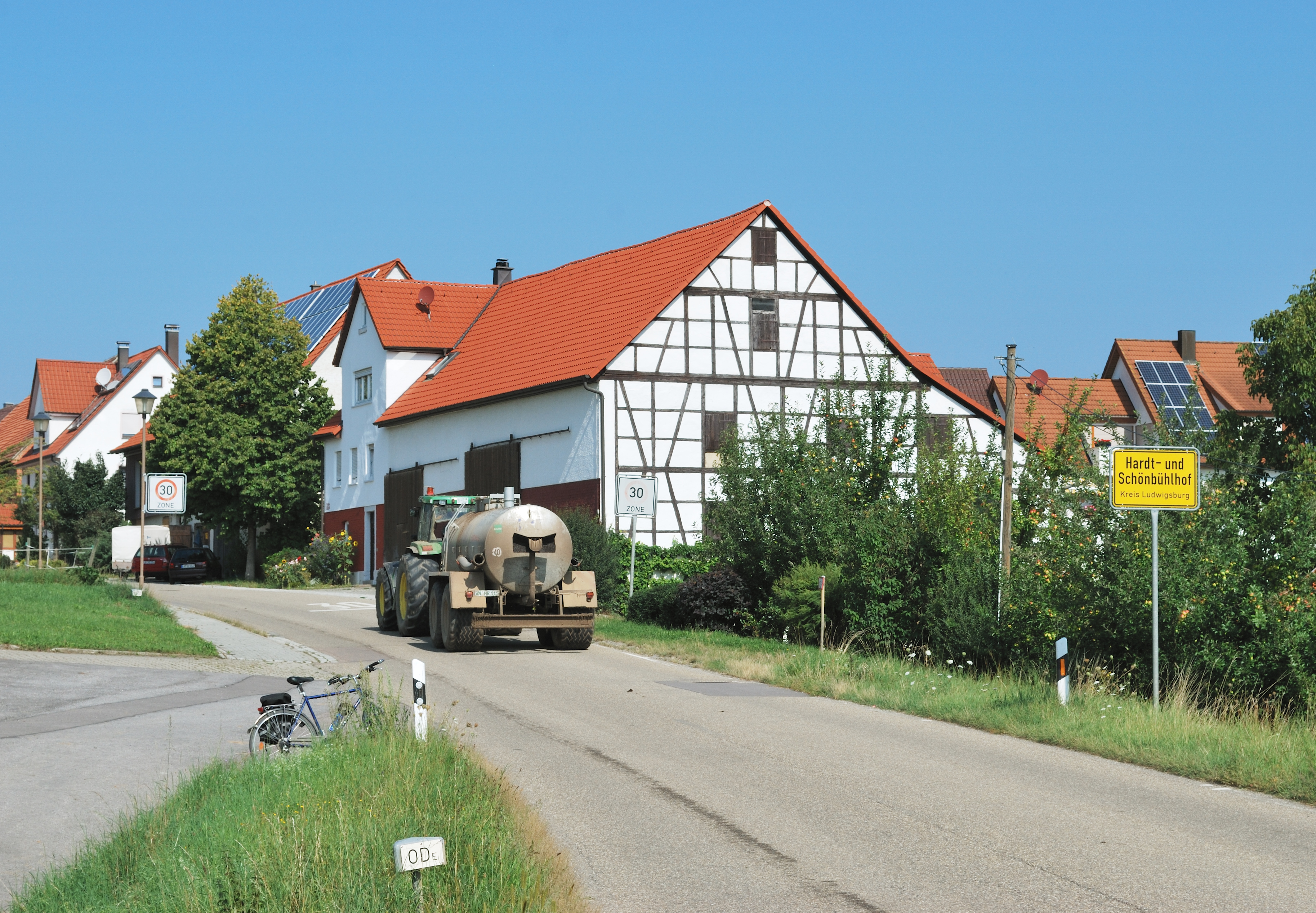 The road leading into Hardt- und Schönbühlhof, a part of the towns Schwieberdingen and Markgröningen in Baden-Württemberg (Germany).